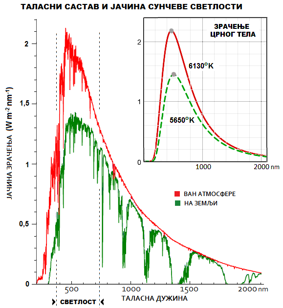 ЗРАЧЕЊЕ СУНЦА